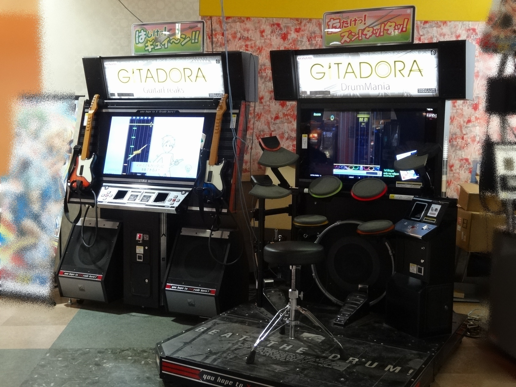 GITADORA (GuiterFreaks and DrumMania)